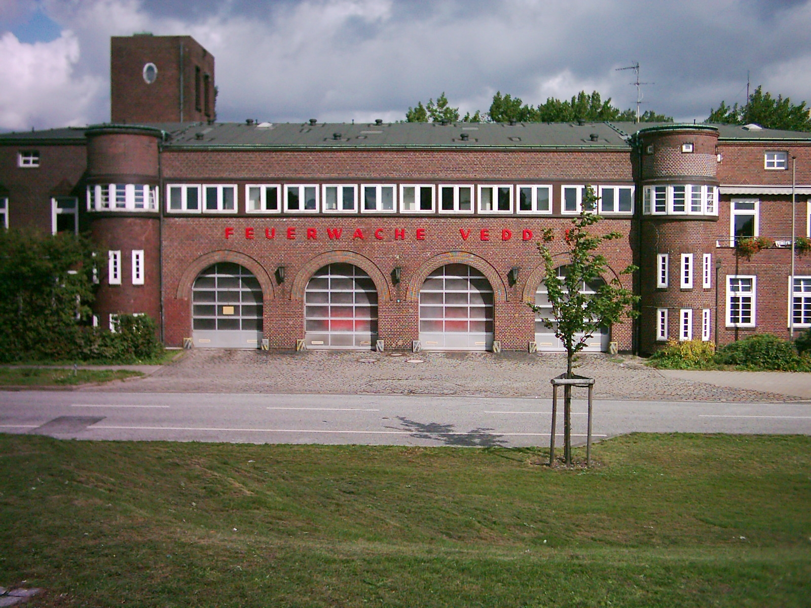 Fire station Hamburg-Veddel, Germany.